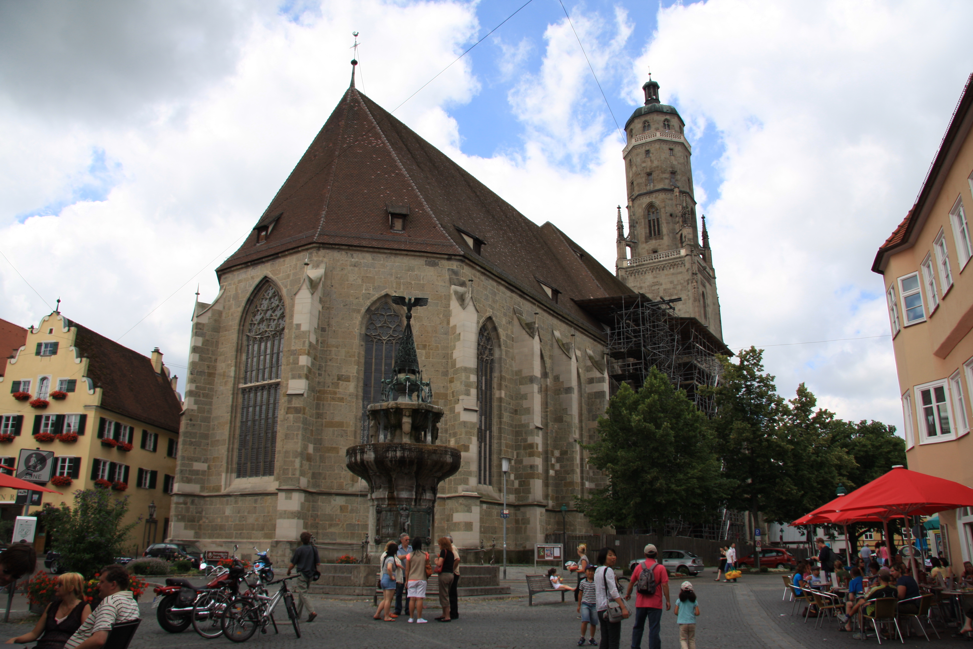 Noerdlingen: Sankt Georg, Kriegerbrunnen